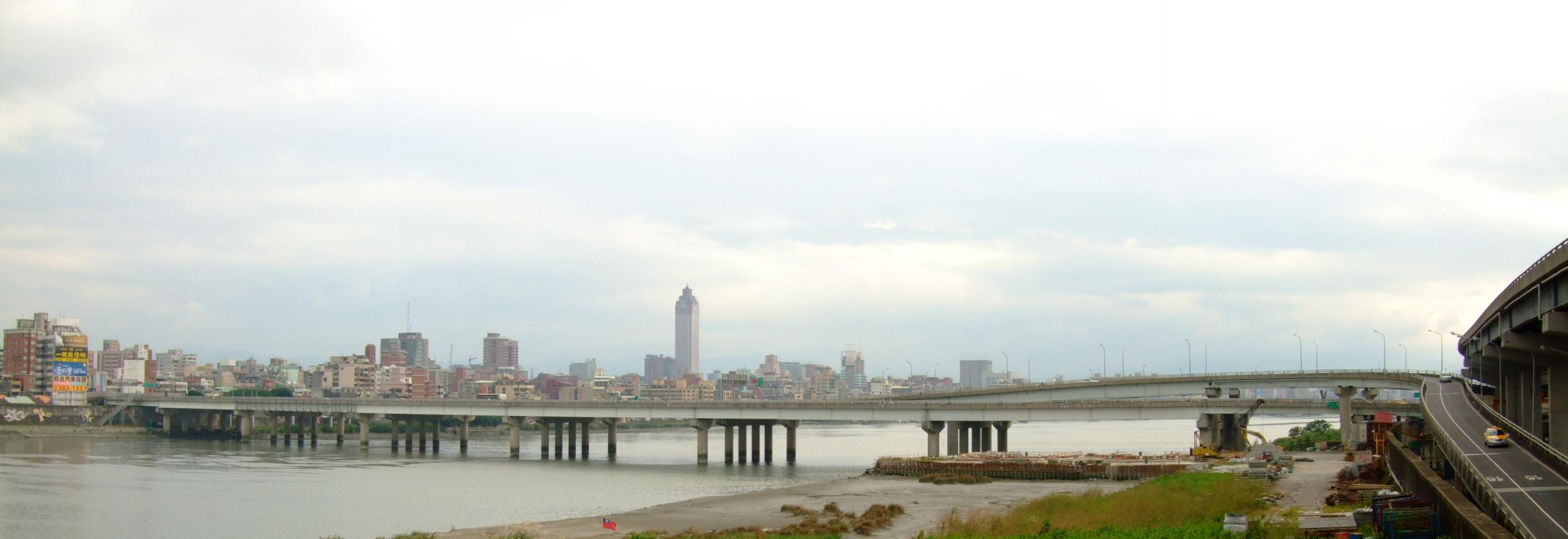 Taipei Bridge seen from Sanchong City, Taipei County.